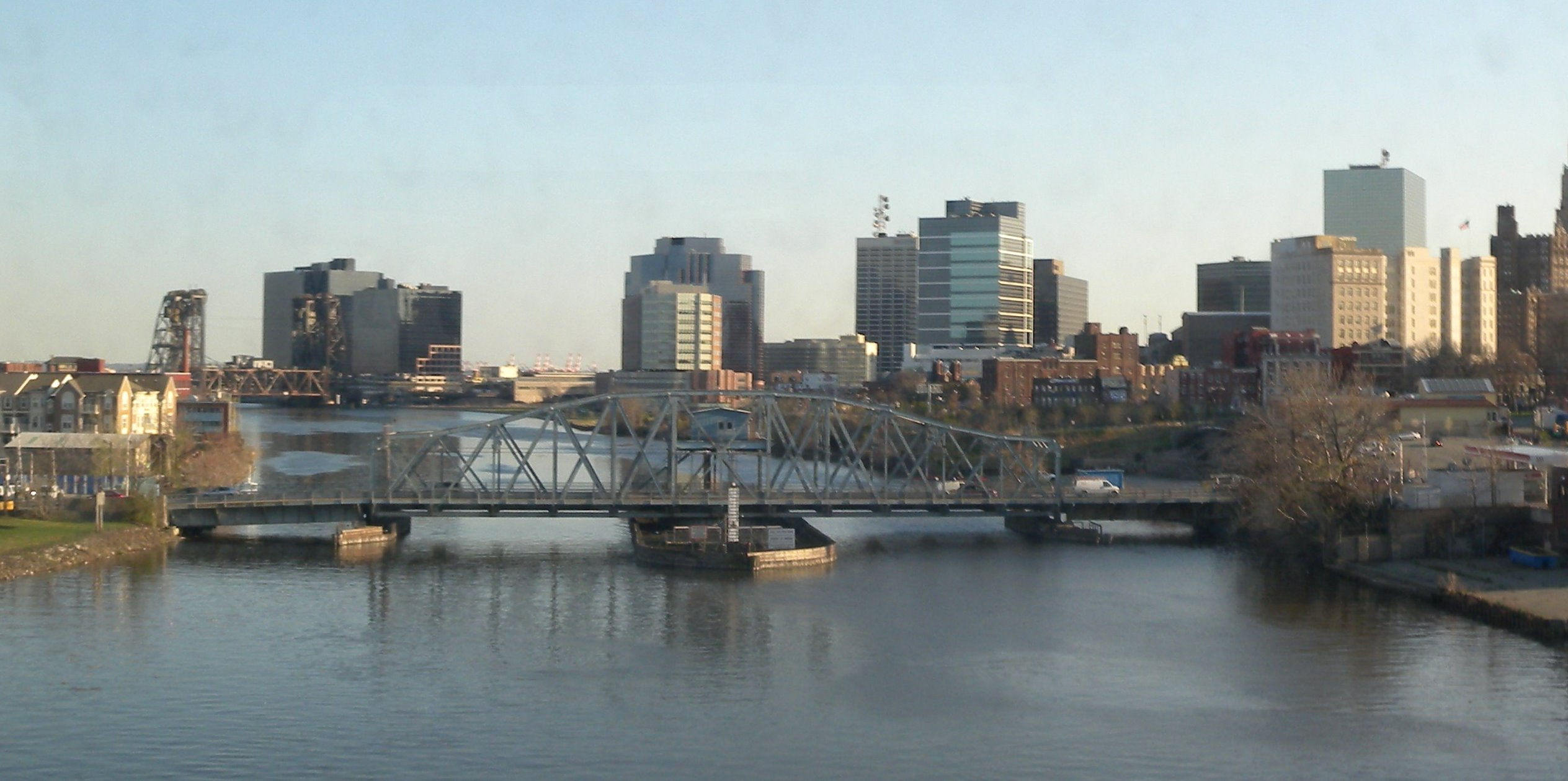 Looking south at Bridge Street Bridge, from an eastbound train on the Broad Street Bridge on a sunny late afternoon.